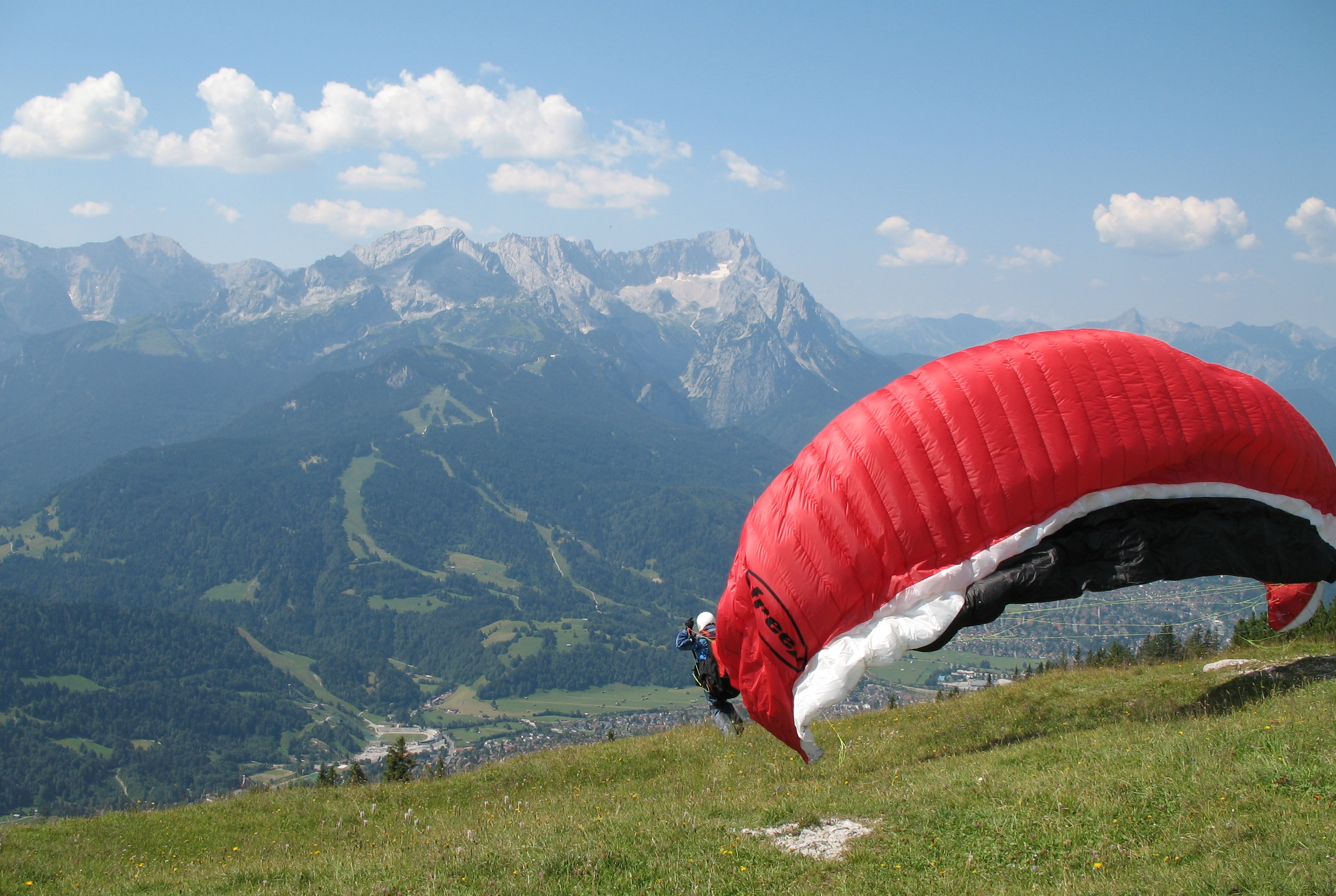 Paraglider starting from Wank mountain in Bavaria